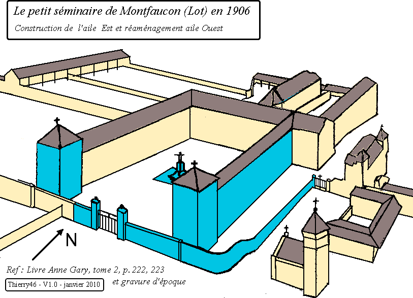 Map of the building of the school "Petit Séminaire" (1906) in town Montfaucon in Lot, France.